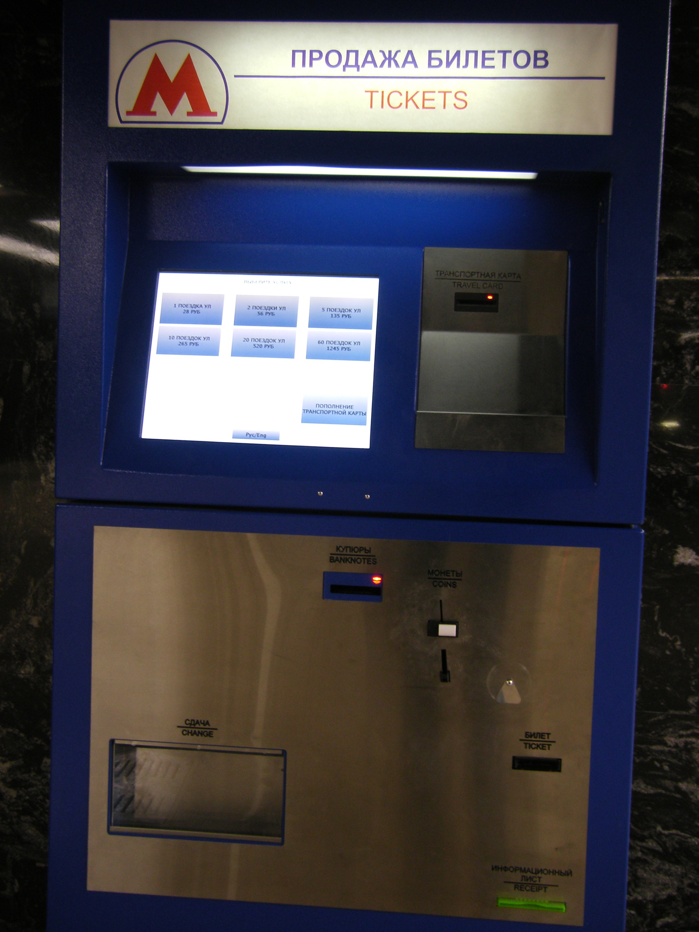 Tickets' machine at the Borisovo metro station in Moscow